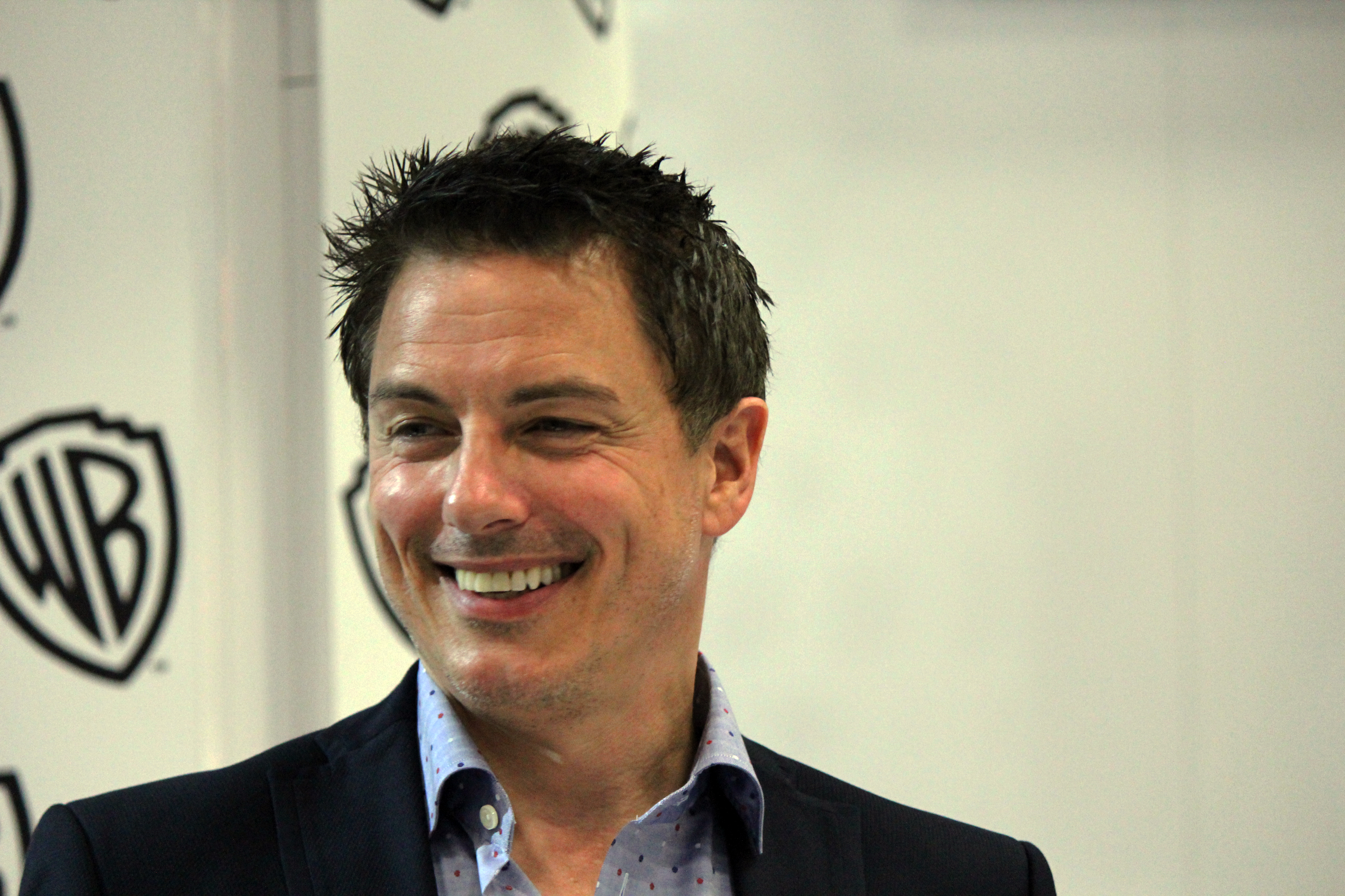 John Barrowman meeting with Arrow fans at the 2014 Comic-Con convention in San Diego, California.